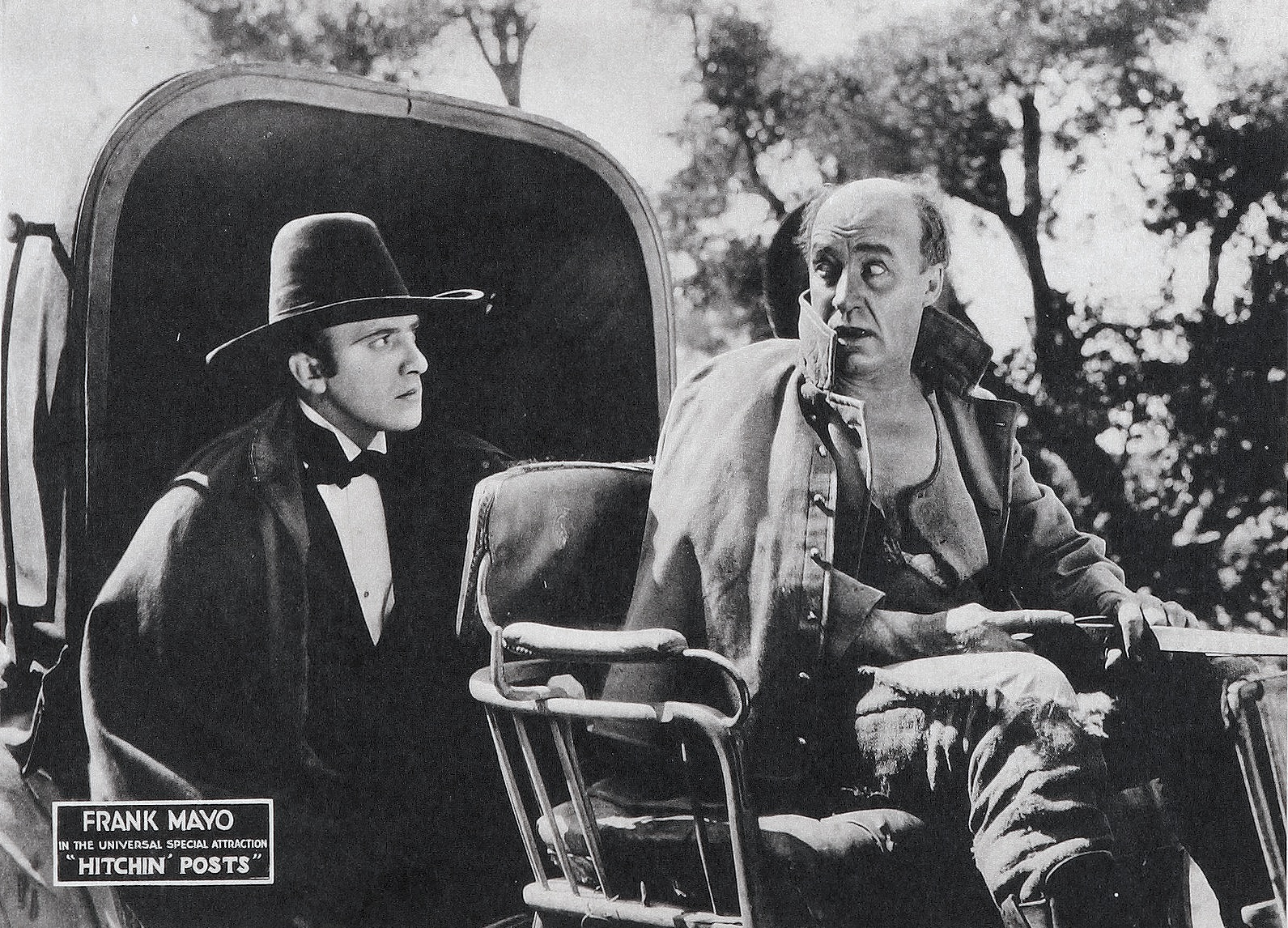 Hitchin' Posts is a 1920 American drama film directed by John Ford. The film is considered to be lost. This is a lobby card with Frank Mayo and and J. Farrell MacDonald